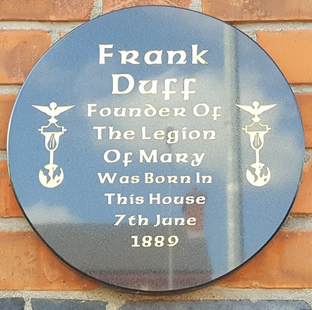 Frank Duff was born in 97 Phibsboro Road on the 7th June 1889